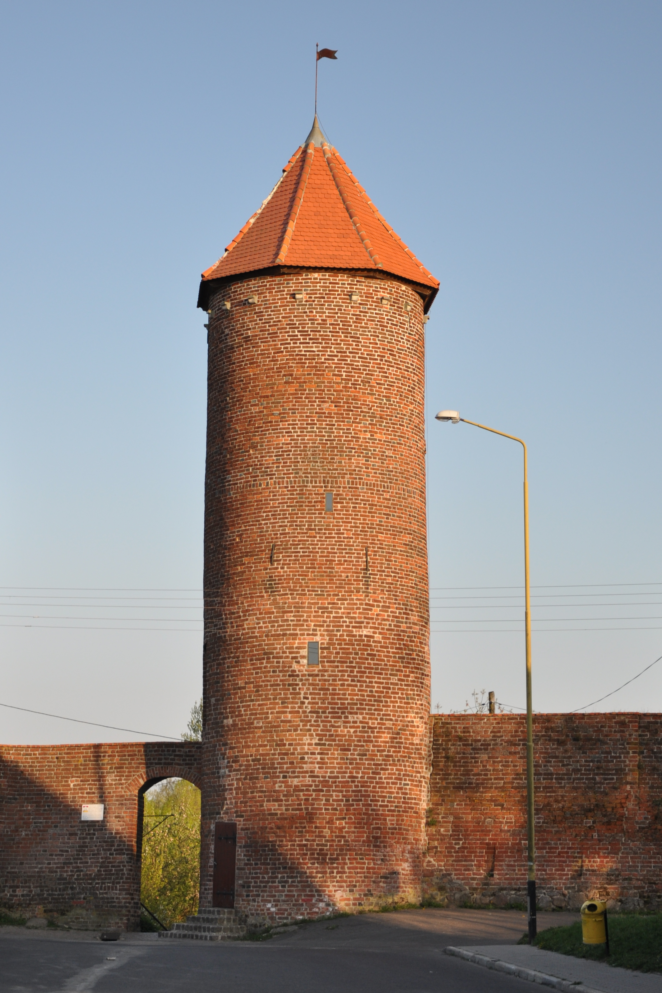 Kaszana Tower in Trzebiatów – view from the Old Town